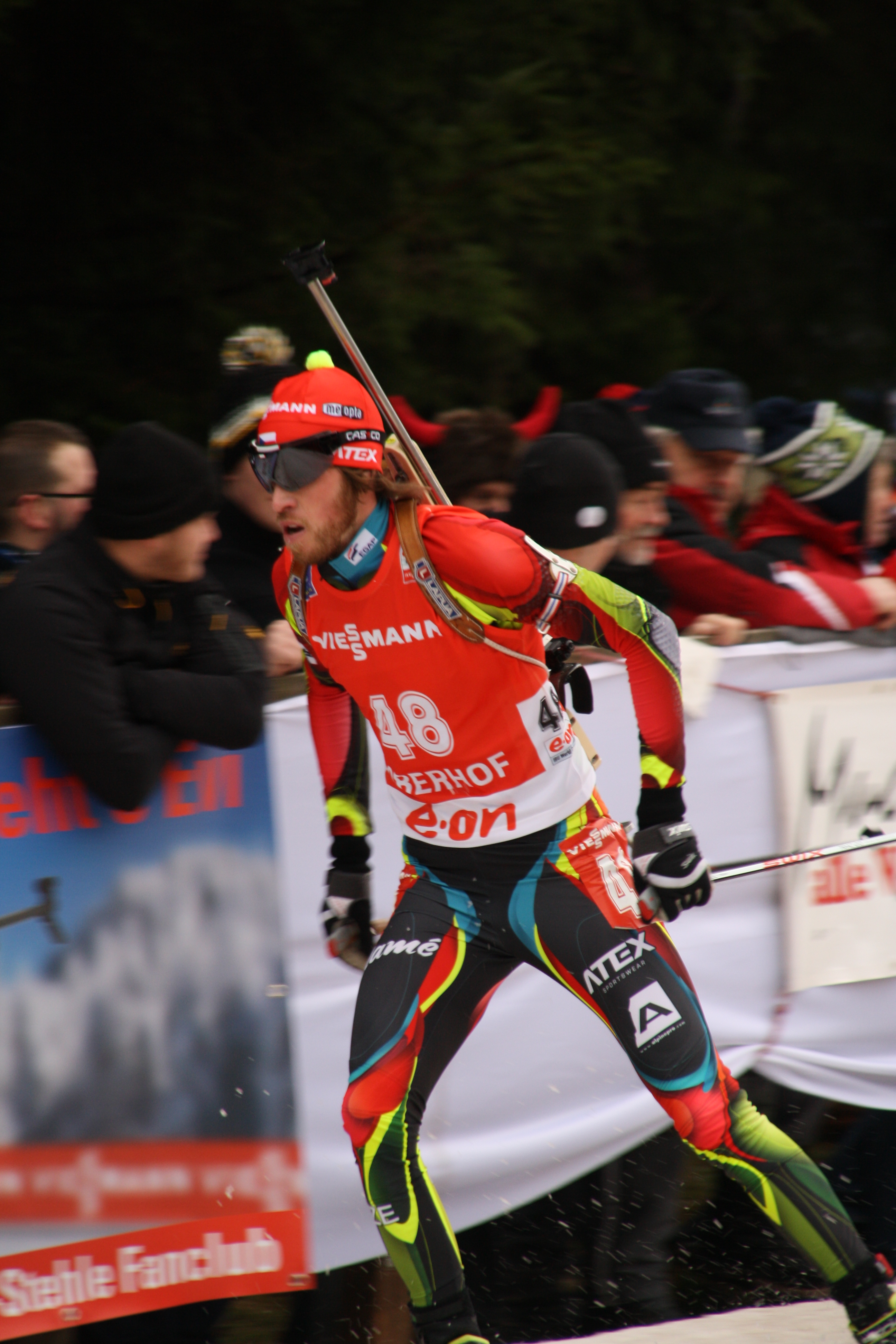 Biathlon World Cup Oberhof 2014 - Mens Pursuit